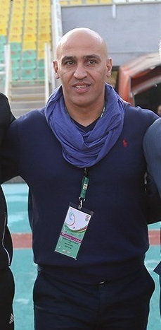 Alireza Mansourian